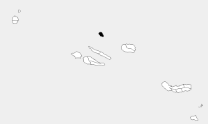 Map of the Azores highlighting Santa Cruz da Graciosa.